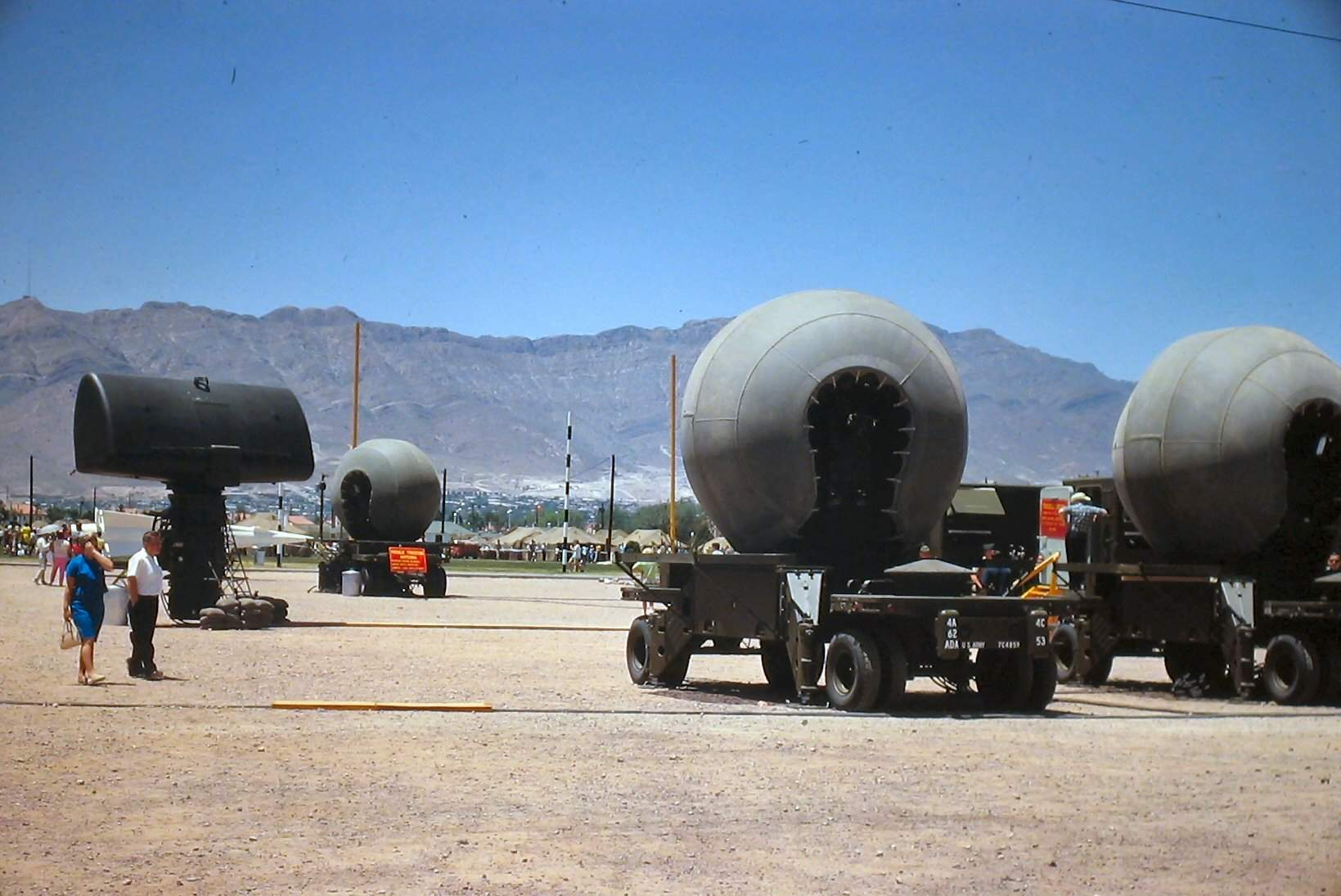 Nike Hercules IFC radars. LOPAR on the left and the three tracking radars (MTR, TTR and TRR) on the right. ITU-classificatio: Radiolocation land station in the radiolocation service.